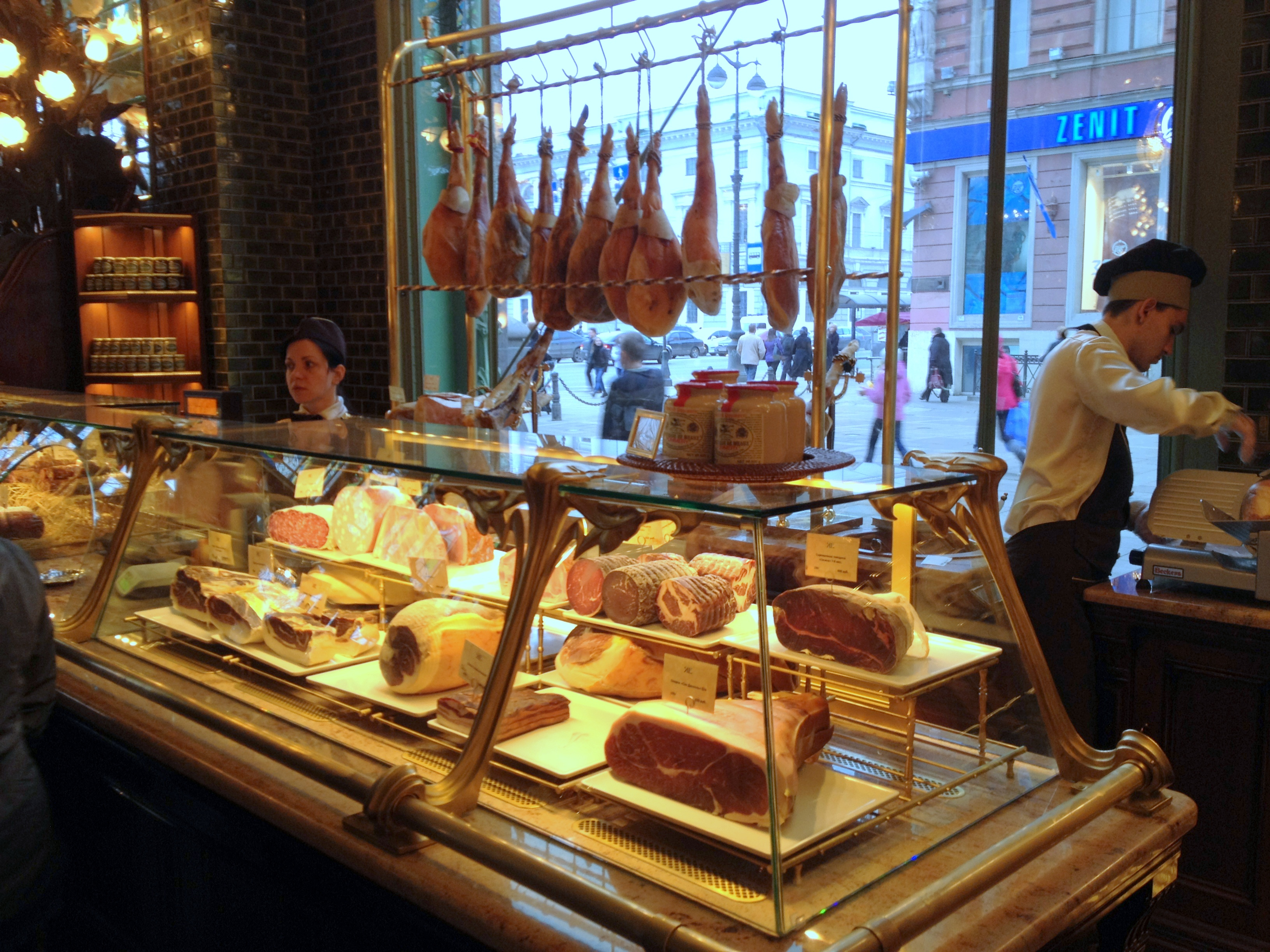 The boucherie at the Eliseyev Emporium, St Petersburg, Russia